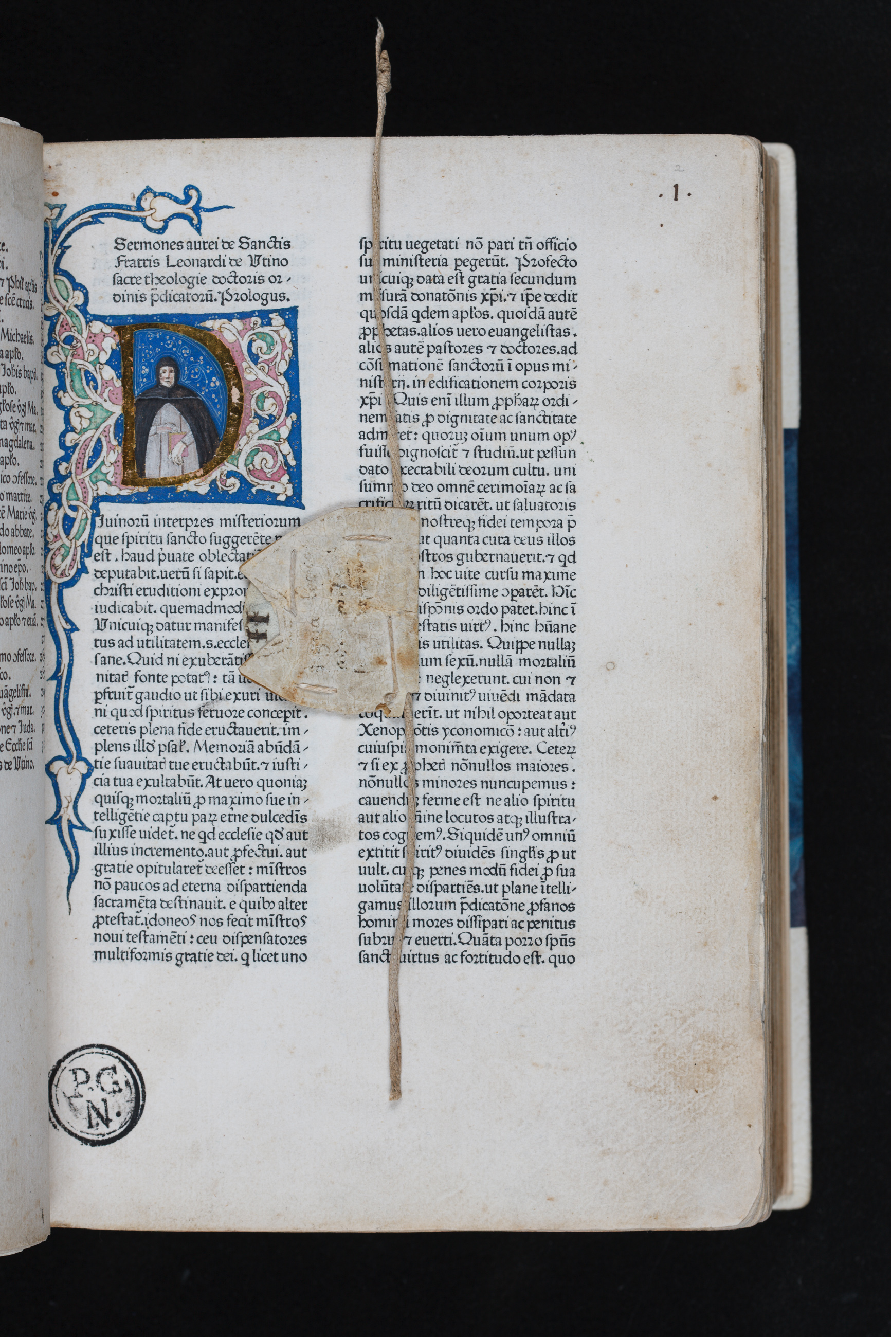 bookmark with a rotating column-indicator on top of a page from Sermones aurei de Sanctis Fratris Leonardi de Utino Venice: Franciscus Renner, de Heilbronn, with Nicolaus de Frankfordia, 1473.